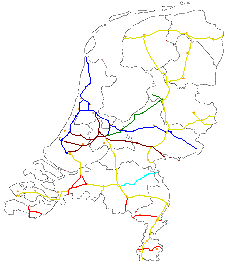 A maps of the railway network in the Netherlands in 1880, showing the different operators (blue=HSM, brown=NSR, Yellow=SS, Teal=NBDS, Green=NCS, Red= other companies. Based on this map. De red track at the most souther tip is not correct, the eastern part should be serveral km more to the south.